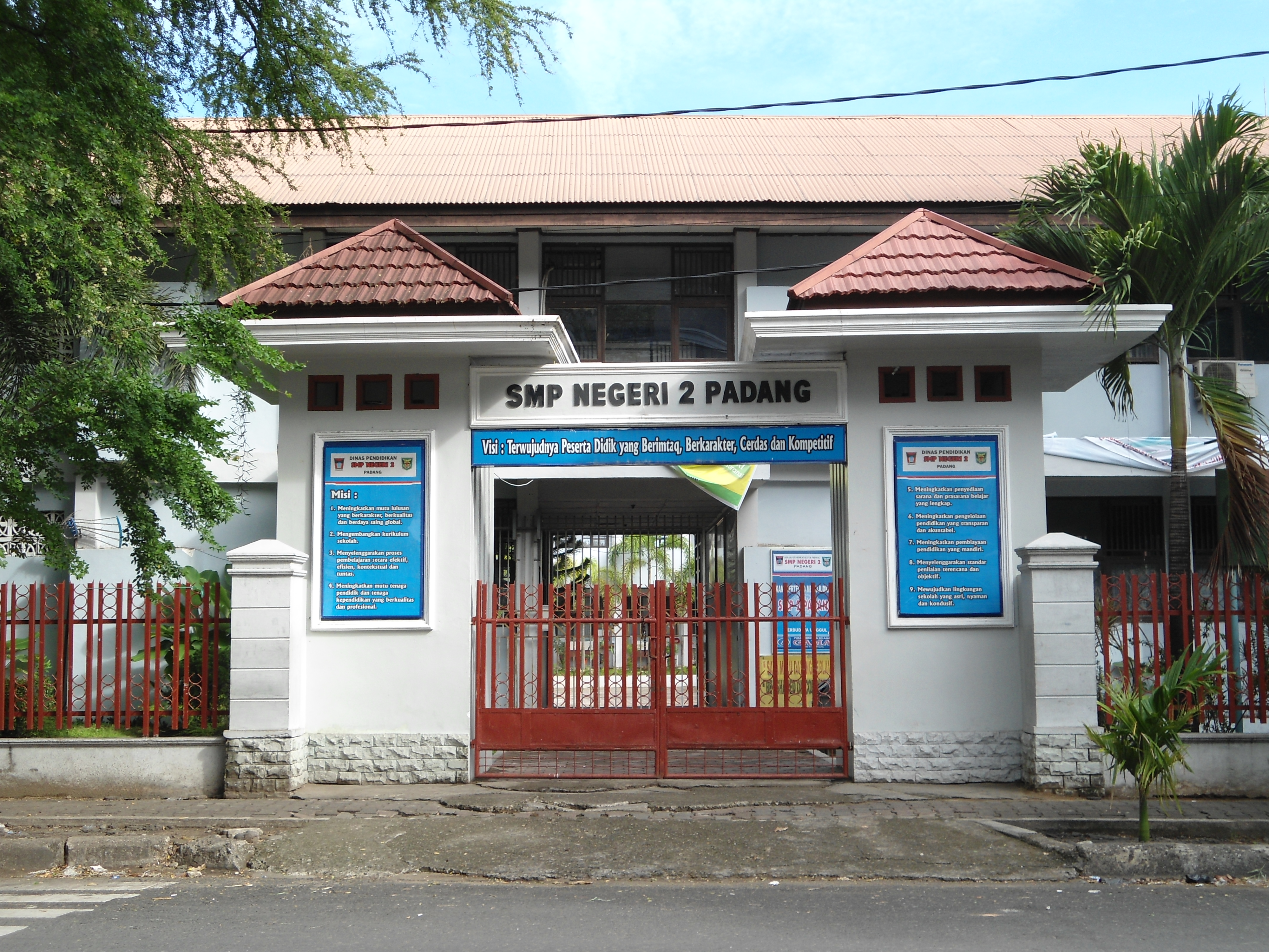 Spendoe Padang